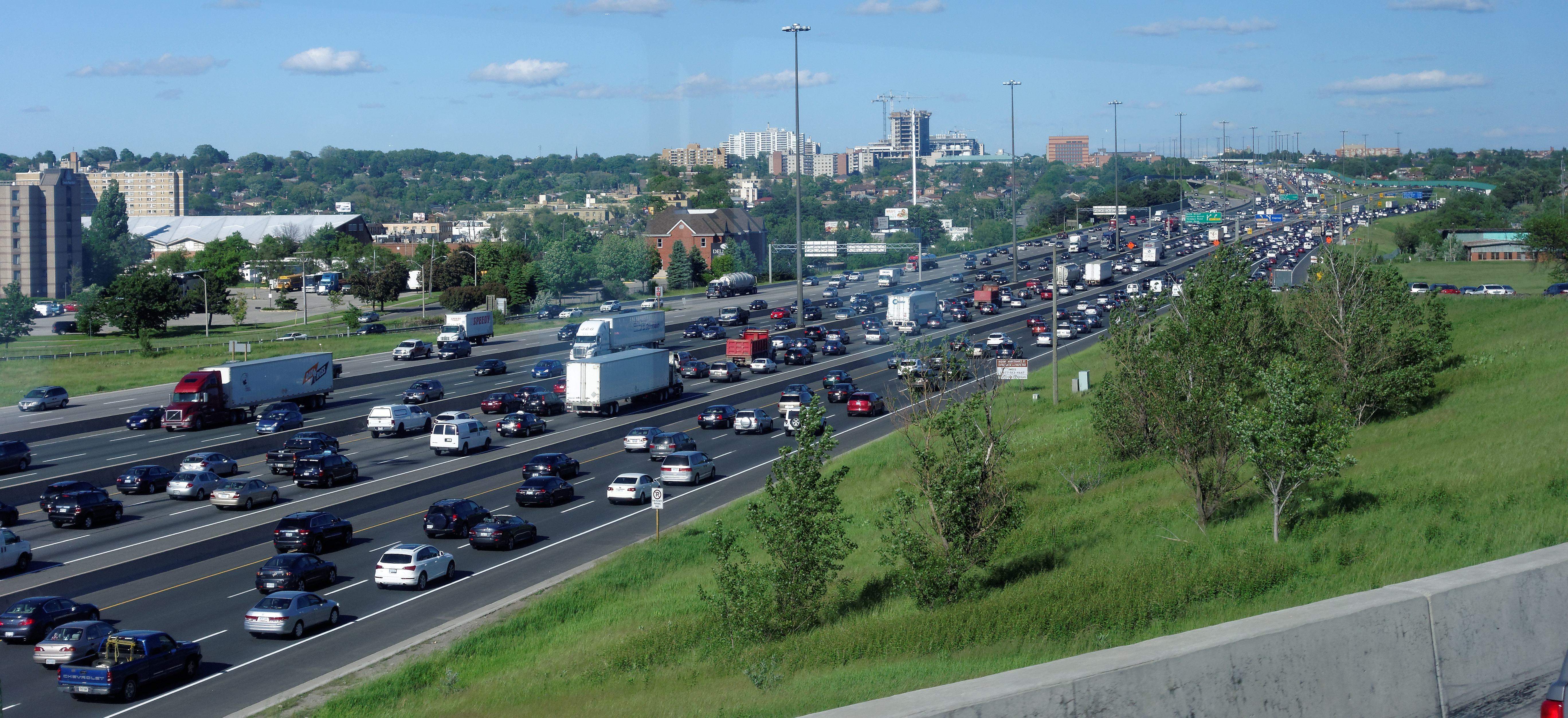 Highway 401 just east of Highway 400 in Toronto, one of the highway's busiest segments.